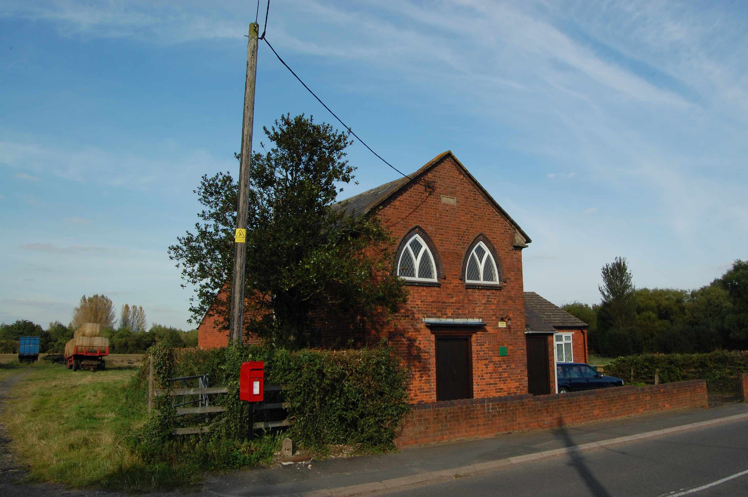 The Old Chapel (Wesleyan, dated 1844) at Bodymoor Heath Warwickshire, England.